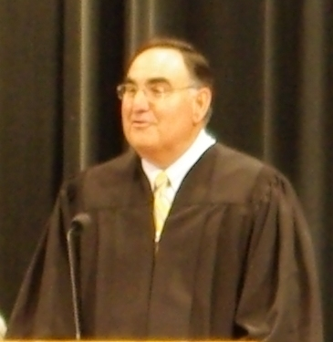 Oregon Supreme Court Chief Justice Paul De Muniz at the Oregon Bar swearing-in ceremony at Willamette University.